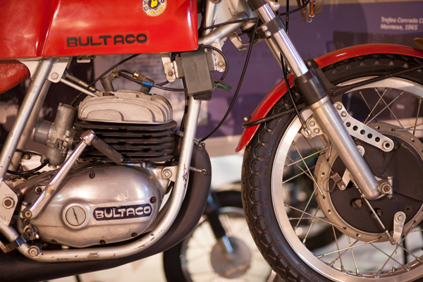 Museu de la moto de Bassella; Bassella, Catalunya, Lleida, Spain; Bultaco, 360cc, 1970; Ref: PM_091885_E_Bassella; Moto; Photographer: Paul M.R. Maeyaert; © Paul M.R. Maeyaert; ; Cultural heritage; Europeana; Europe/Spain/Bassella